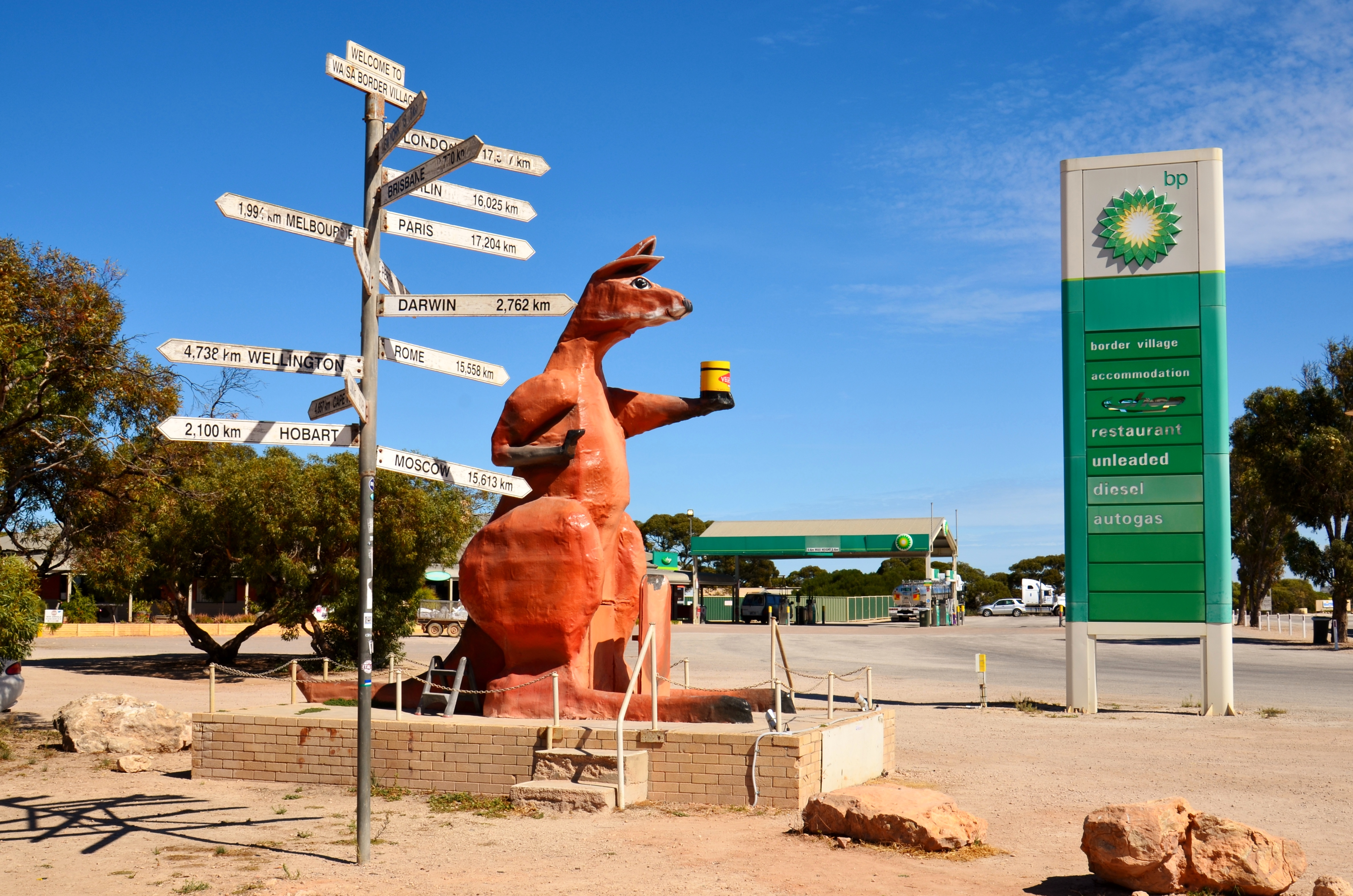 The "Rooey II" big roo sculpture at the roadhouse at Border Village, South Australia.